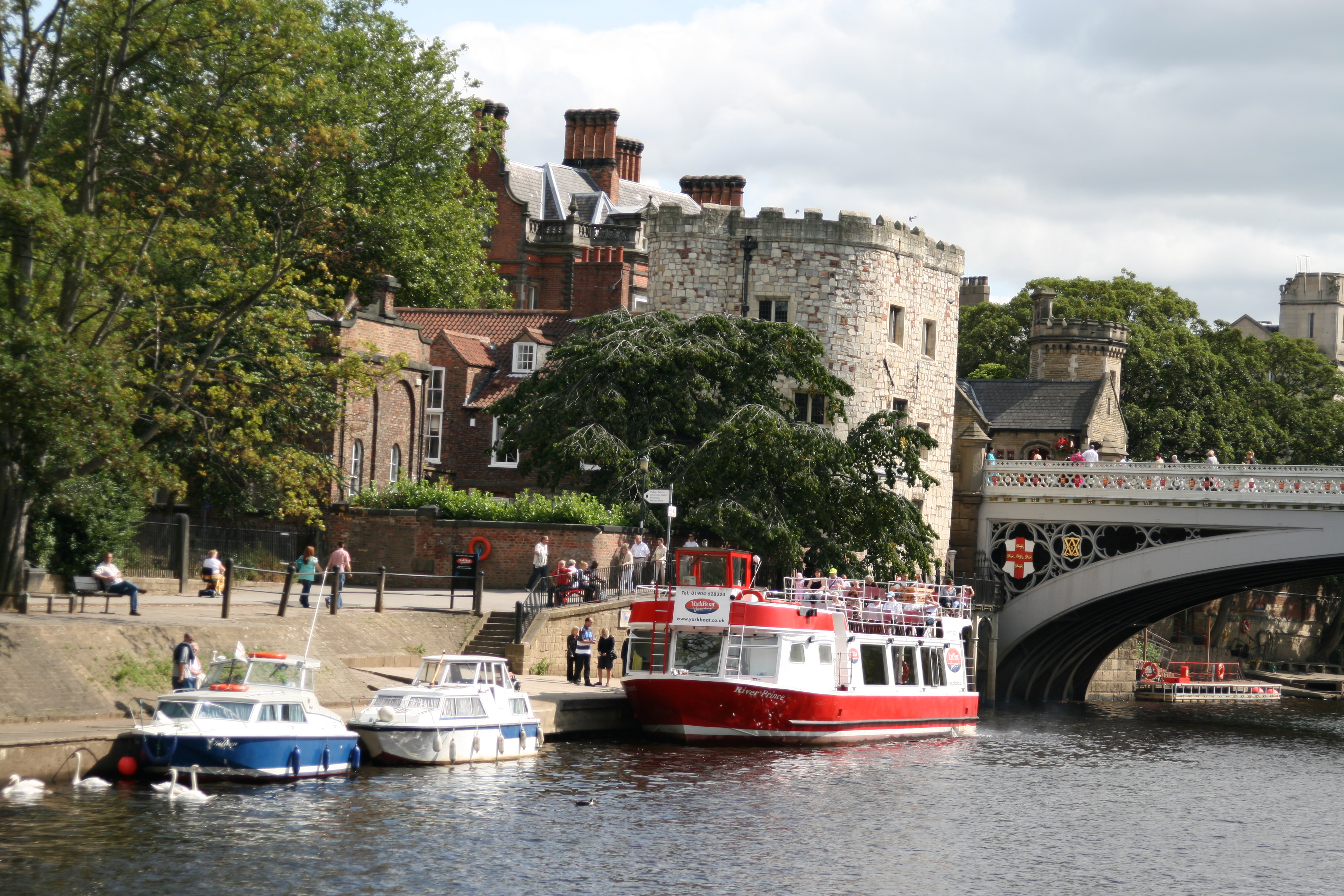 Boats on the River Ouse at York, beside Lendal Bridge. For more information, see Wikipedia articles York and River Ouse.